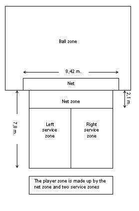 2D view of a Qianball court